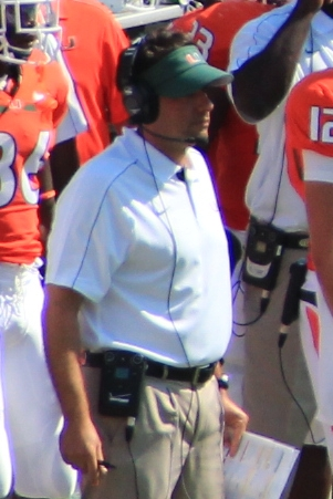 Miami Hurricanes football offensive coordinator Jedd Fisch.